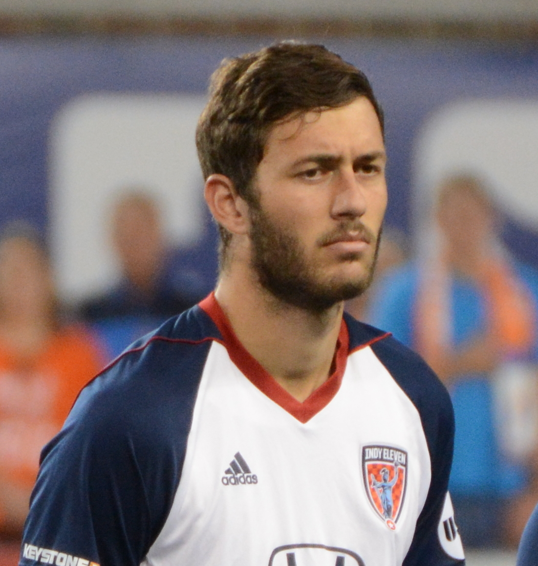 Carlyle Mitchell, Reiner Ferreira, Kevin Venegas, Elliot Collier, Karl Ouimette, Nico Matern Taken during a USL regular season match between FC Cincinnati and Indy Eleven at Nippert Stadium in Cincinnati, USA on September 29, 2018.